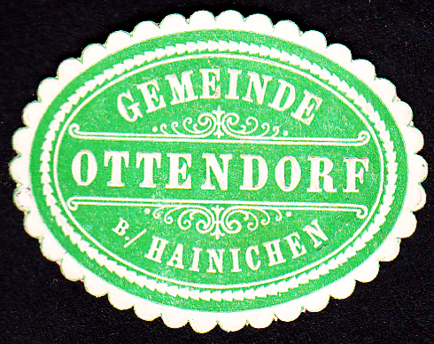 Sealing stamp of the former village Ottendorf near Hainichen